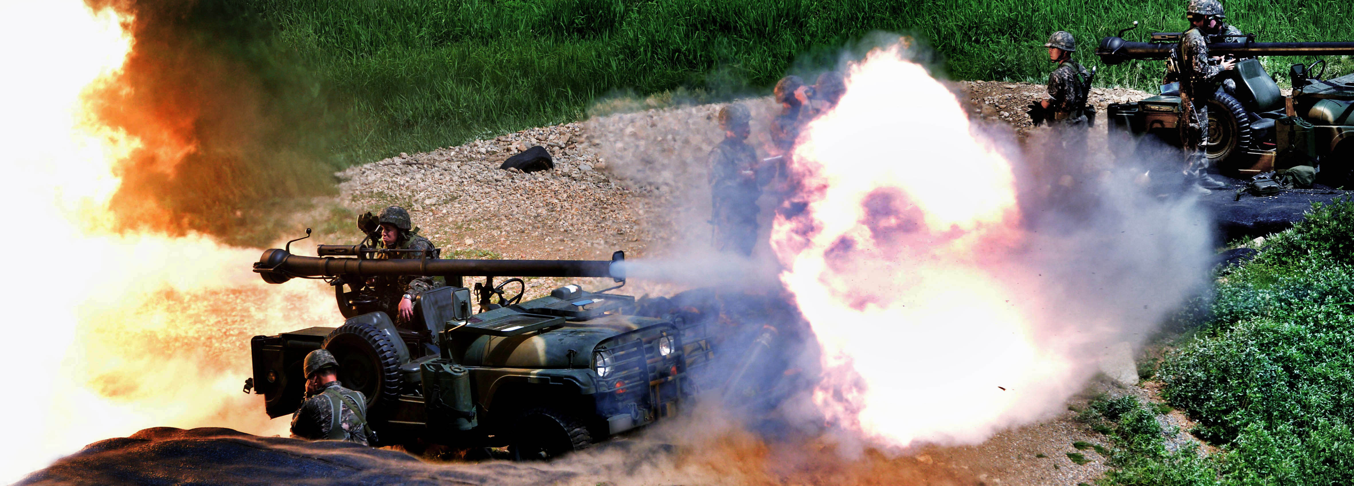 Republic of Korea Army 61th Division